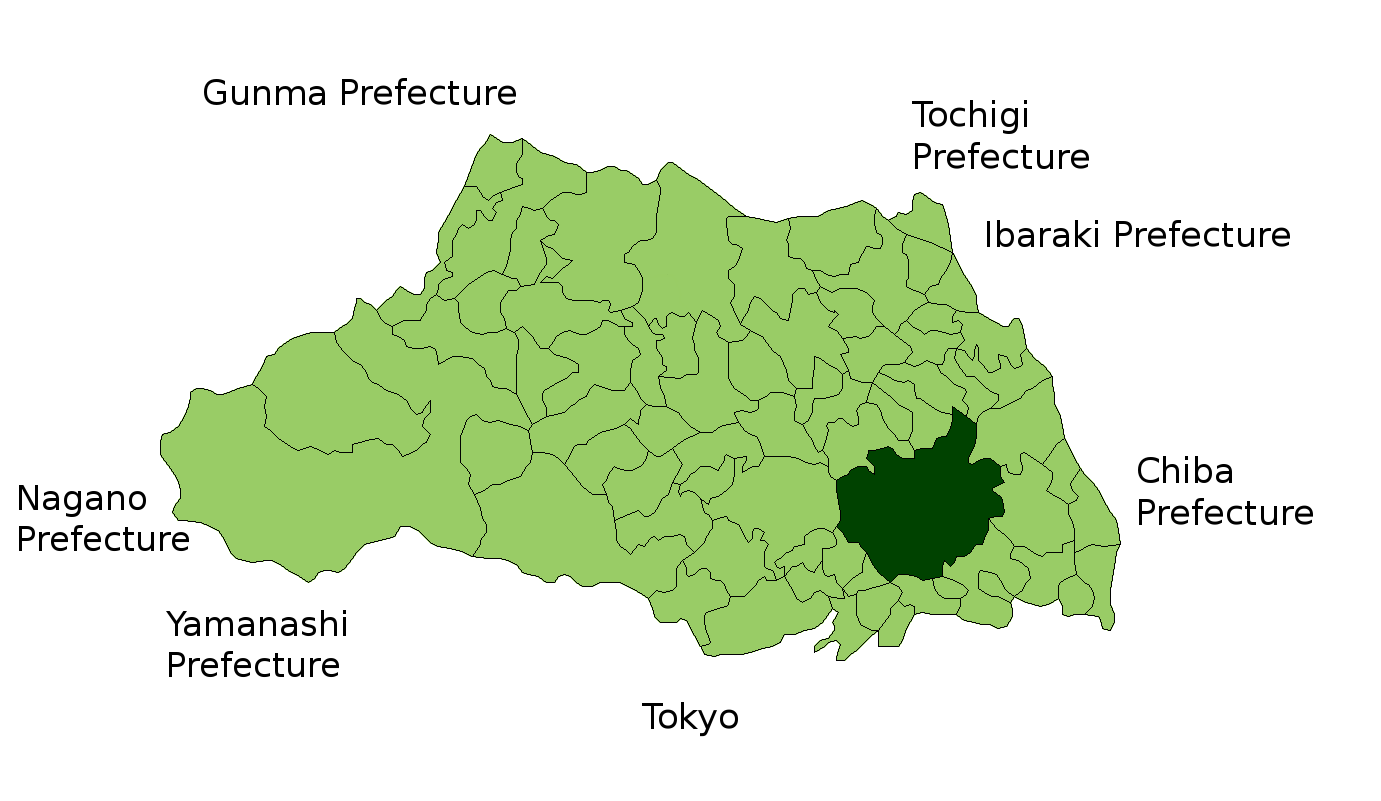 Location Map of Saitama in Saitama Prefecture, Japan